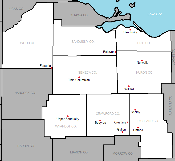 County outline made by the US Census. Modified by myself to show school locations.